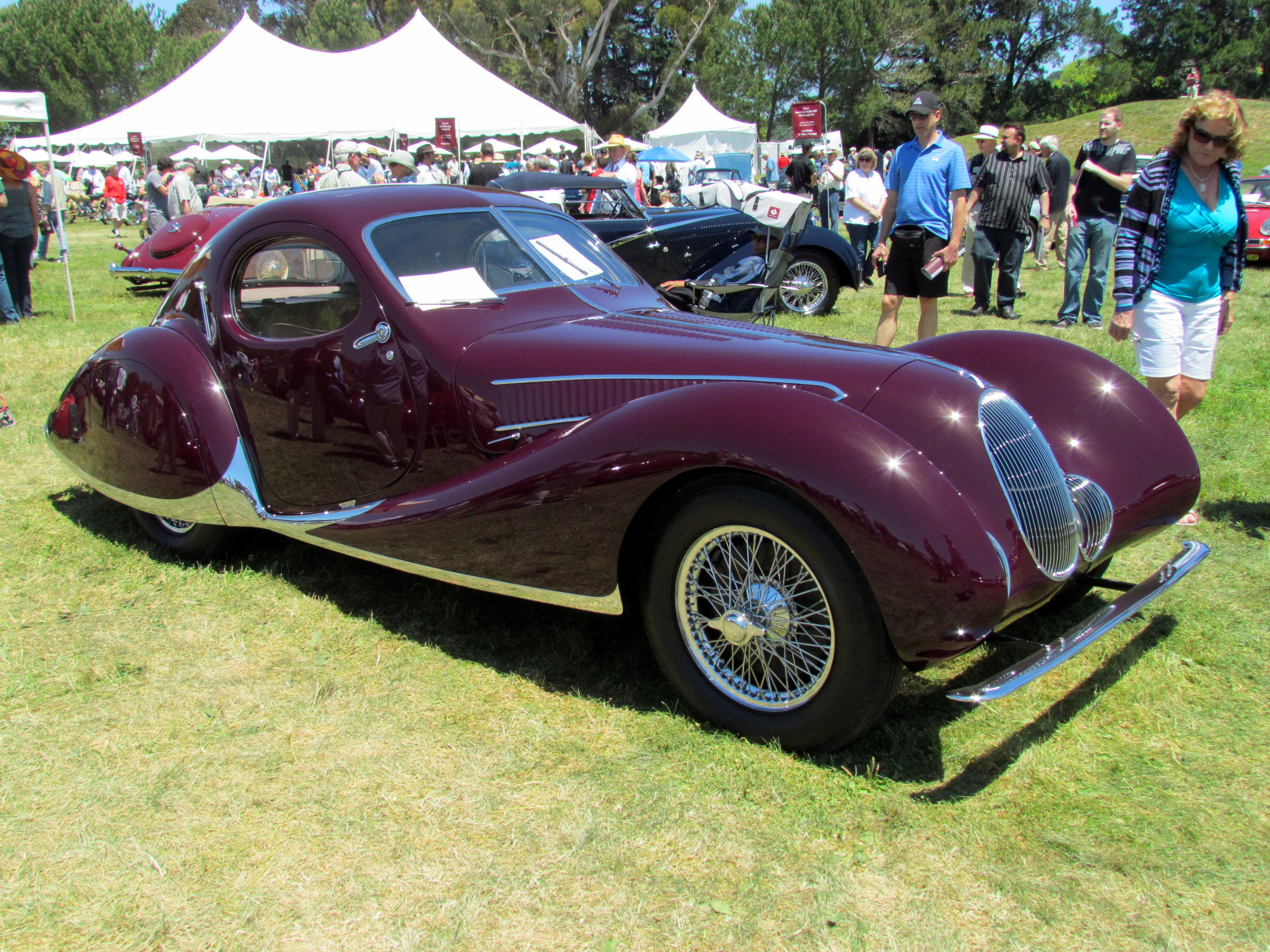 1938 Talbot SS 150 Marin-Sonoma Concours d'Elegance 2012